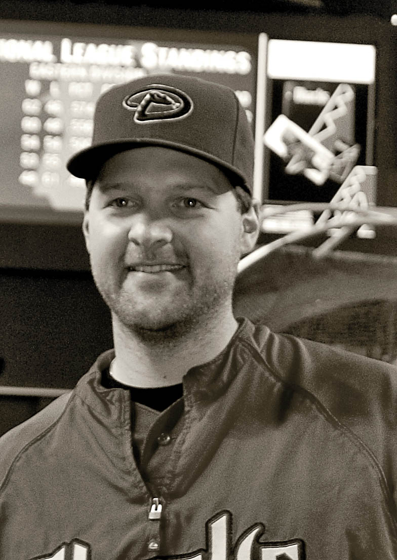 Aaron Heilman in August 2010 with the Arizona Diamondbacks.